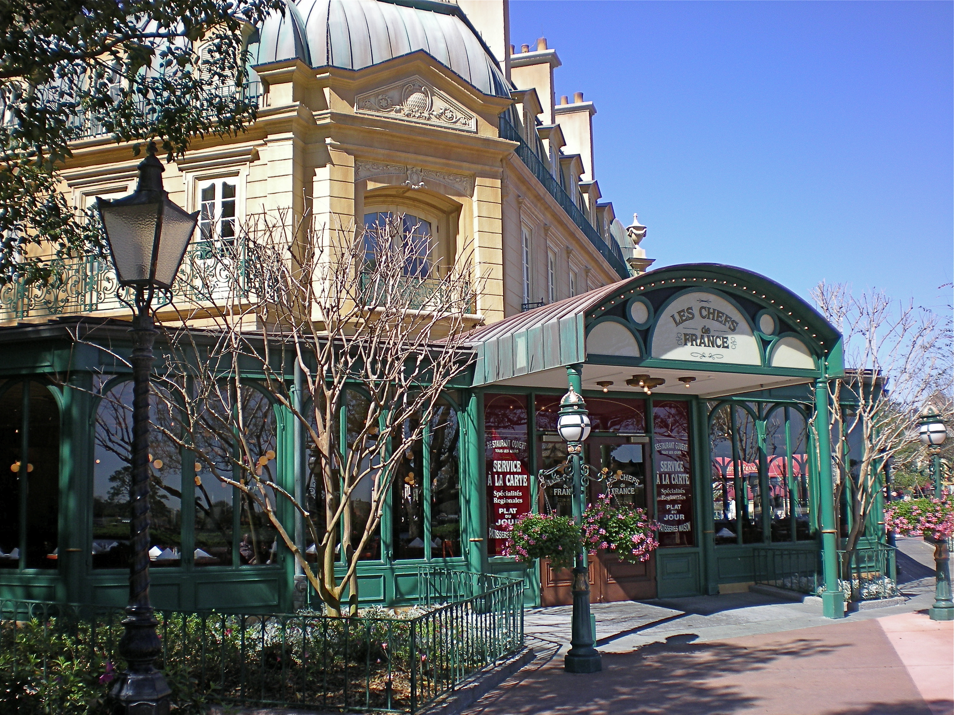 Entrance to Les Chefs de France